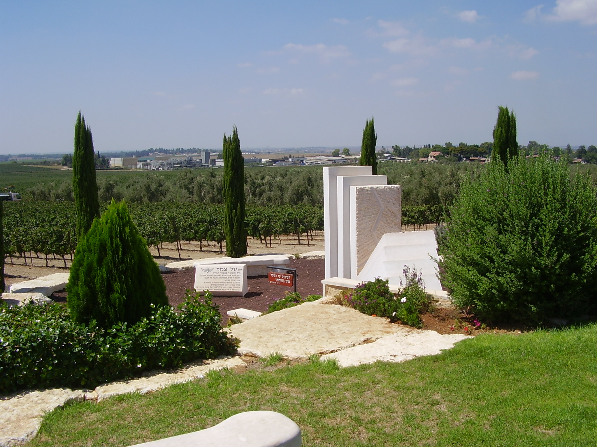 tal look out memorial near kibbutz hulda מצפה טל ליד קיבוץ חולדה